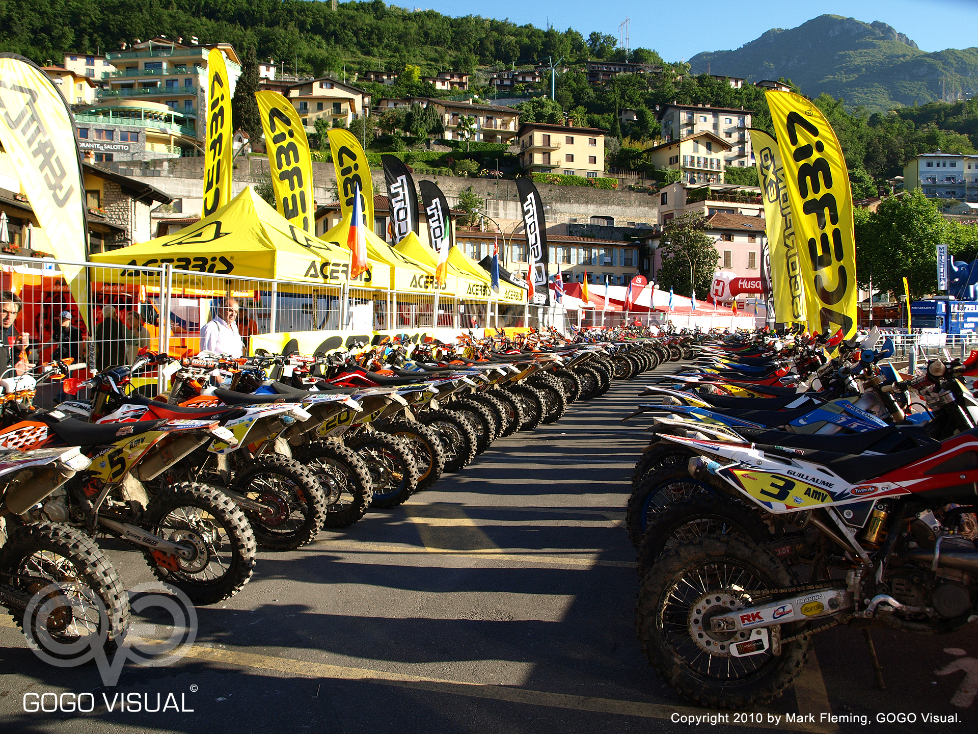 2010 MAXXIS FIM Enduro World Championship GP of Italy, in Lovere (41st Valli Bergamasche). Holding area